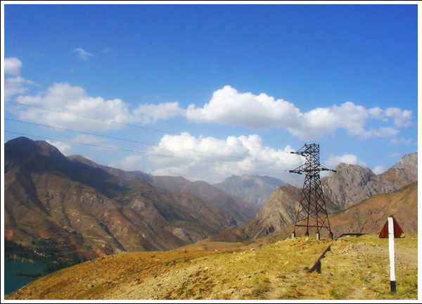 Oʻzbekcha/ўзбекча: Category:Suratlar: Chorbog` Category:Suratlar:Medvezhutka